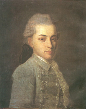 Portrait of Ivan Alexandrovich Osterman (1725-1811)label QS:Len,"Portrait of Ivan Alexandrovich Osterman (1725-1811)"label QS:Lru,"Портрет графа И.А. Остермана"